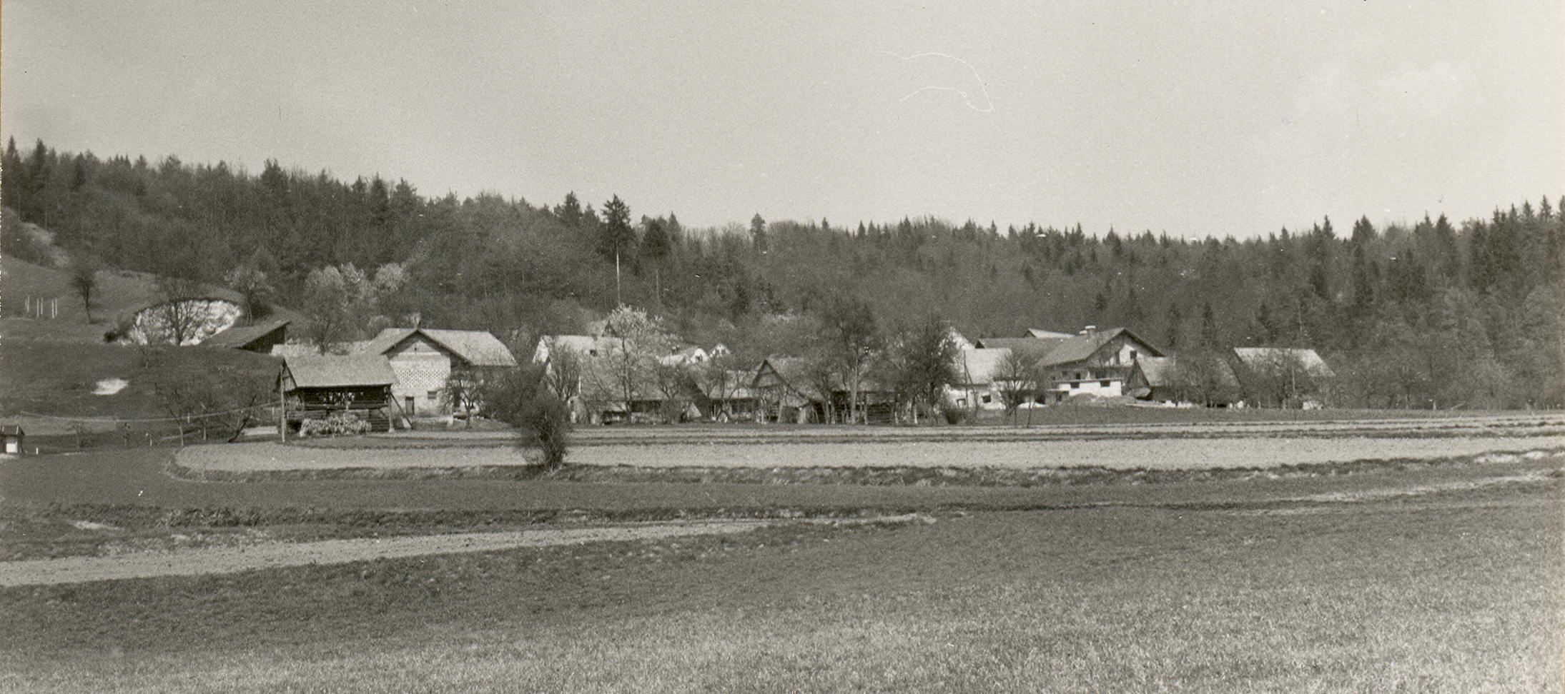 Gorenje Blato, Slovenia